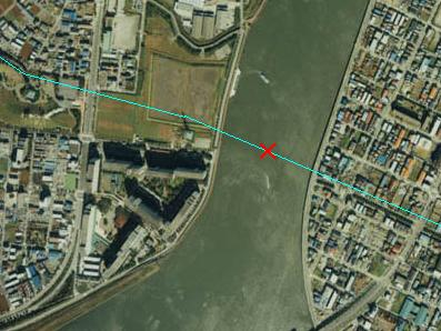 Kyu Edogawa (旧江戸川), Edogawa W, Tokyo M.